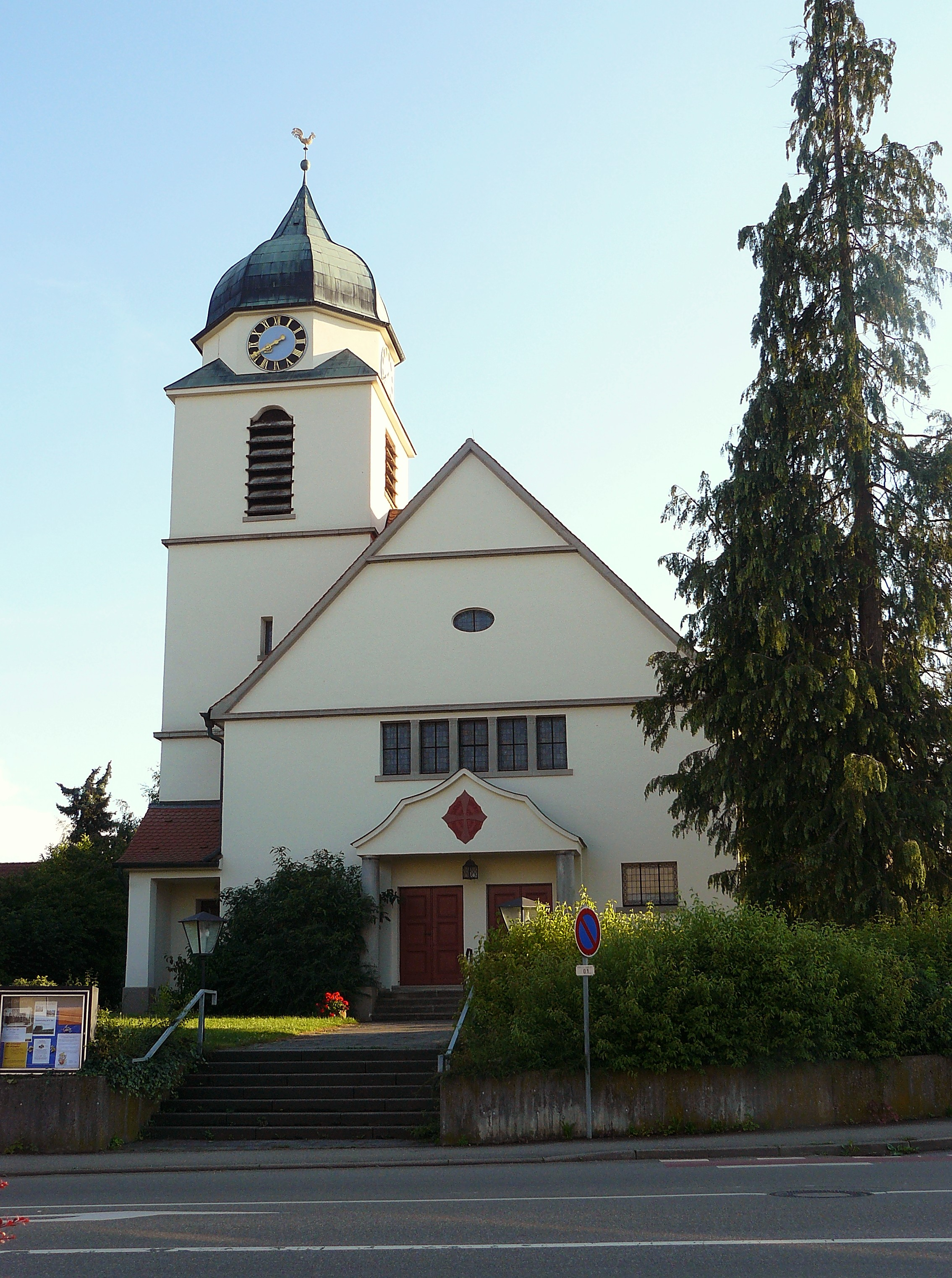 Christuskirche (christ curch) in Aalen, Germany.